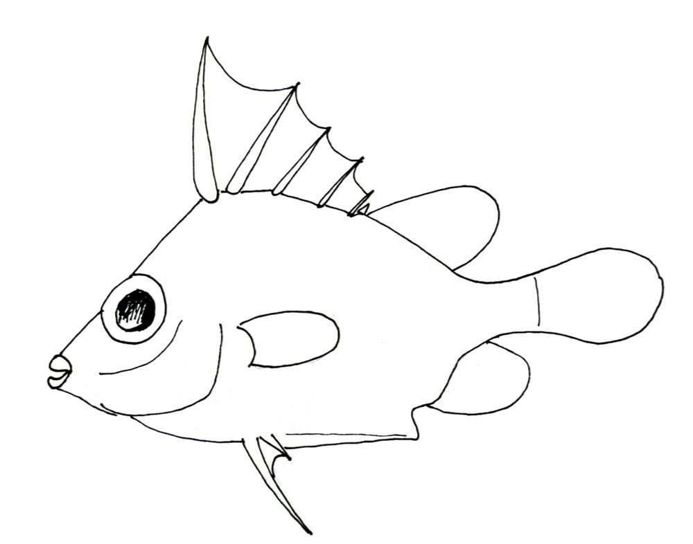 Parahollardia lineata (Longley, 1935)